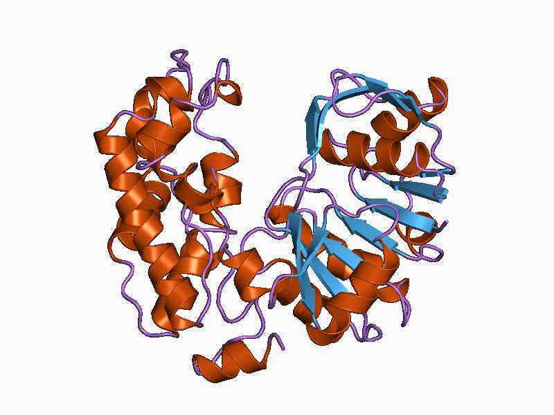 Cartoon representation of the molecular structure of protein registered with 1bg6 code.